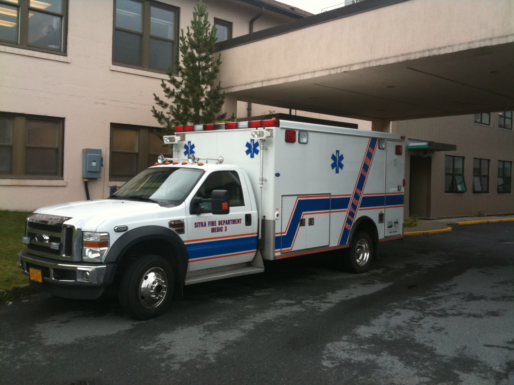 Sitka Fire Department and EMS Ambulance at the ER bay of Mt. Edgecumbe Hospital in Sitka, Alaska.